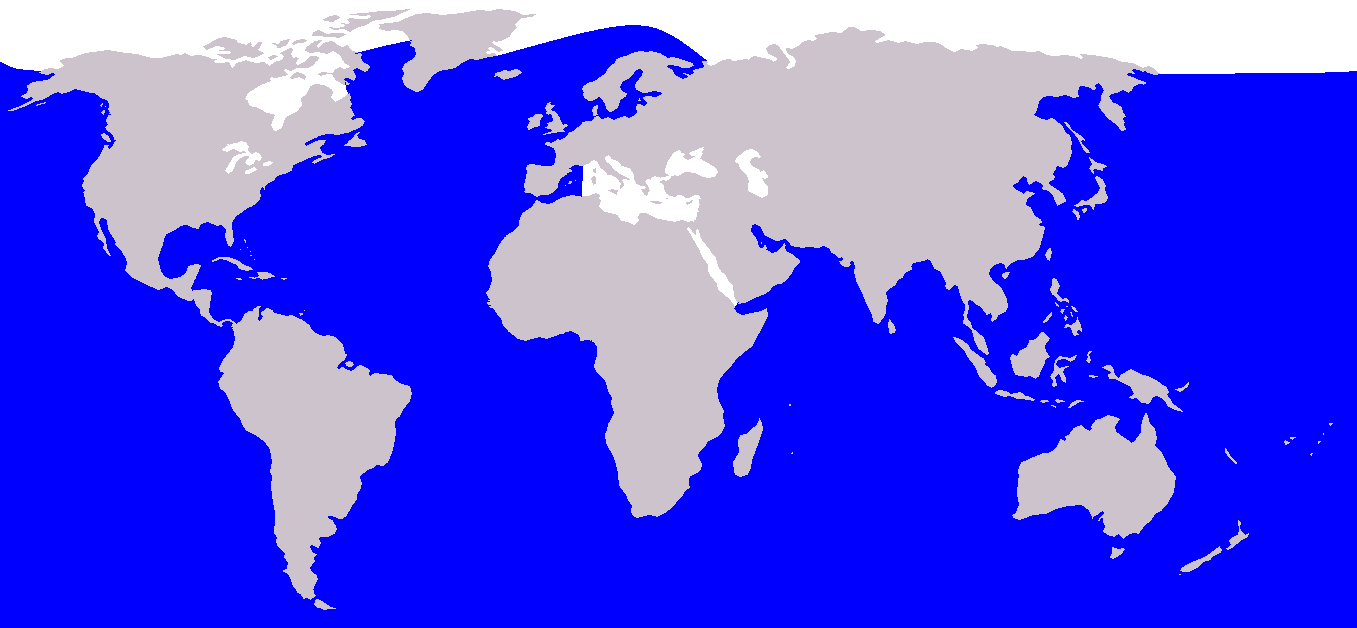 Humpback Whale Range